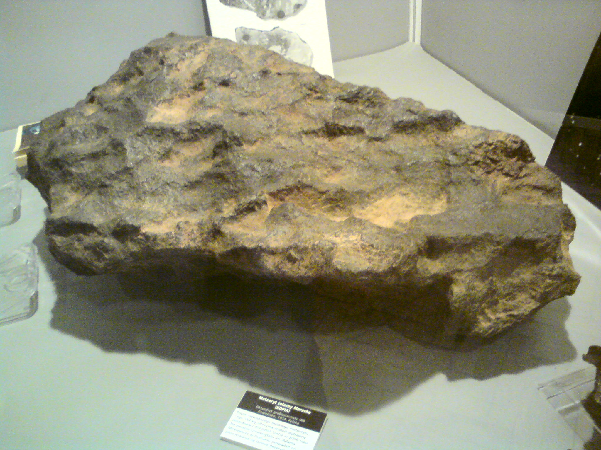 Meteorite found in Nature reserve Meteoryt Morasko, Poland